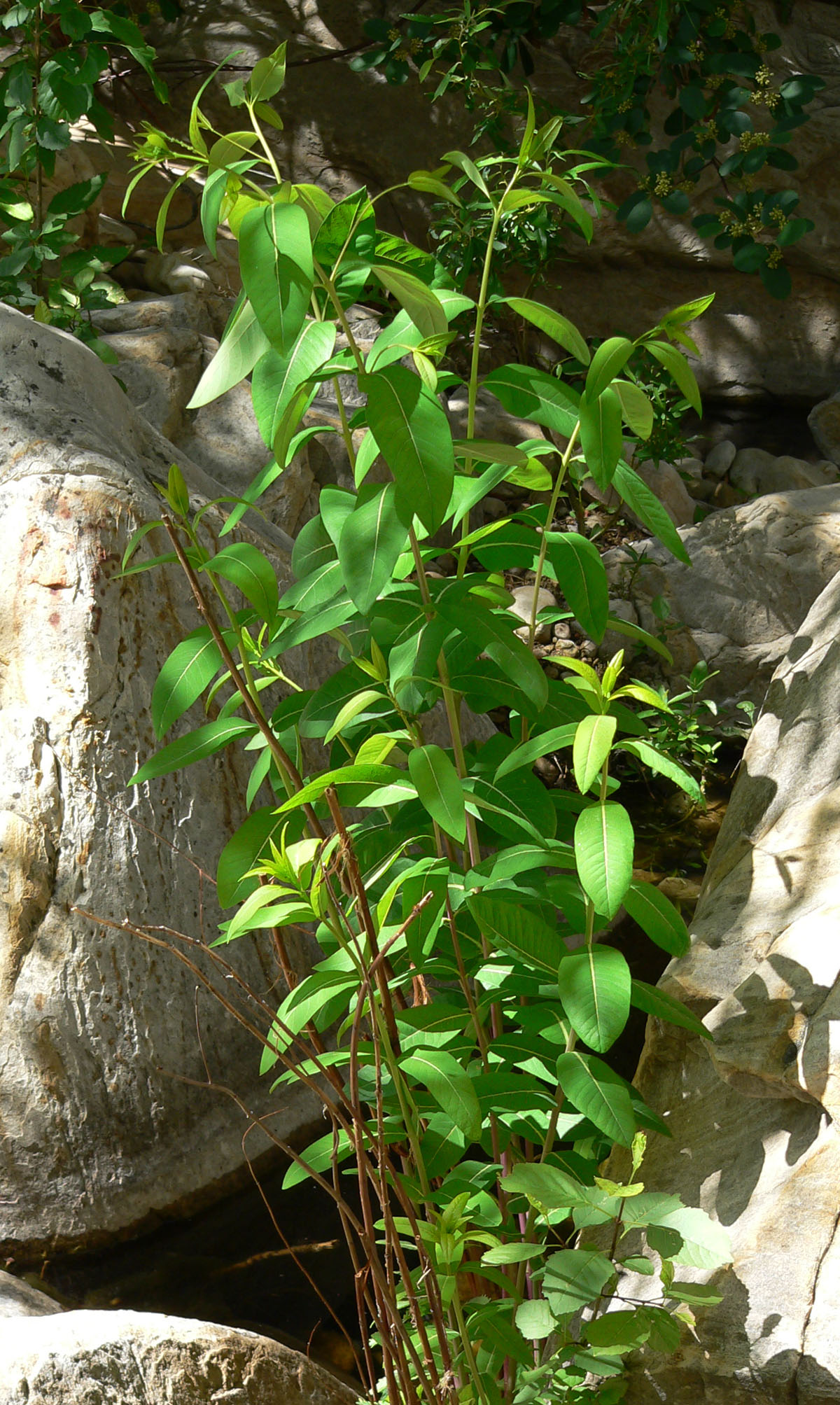 Apocynum cannabinum in upper north fork of Pine Creek Canyon, Red Rock Canyon, Spring Mountains, southern Nevada (elev. about 1500 m)